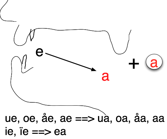 A umlaut in South Sami